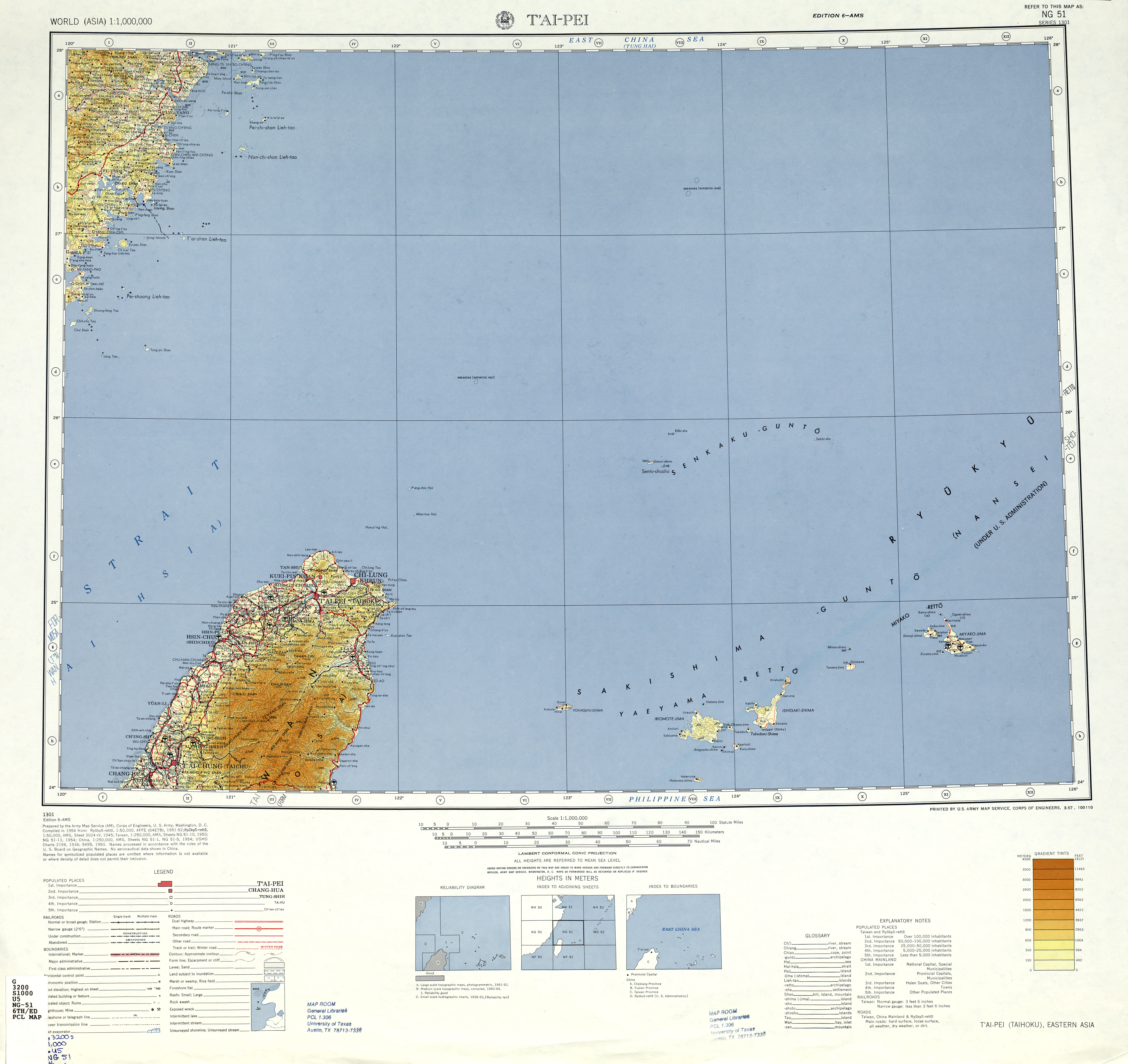 Map of Taipei (T'ai-pei, Taihoku), Taiwan and surrounding areas from the International Map of the World 1:1,000,000